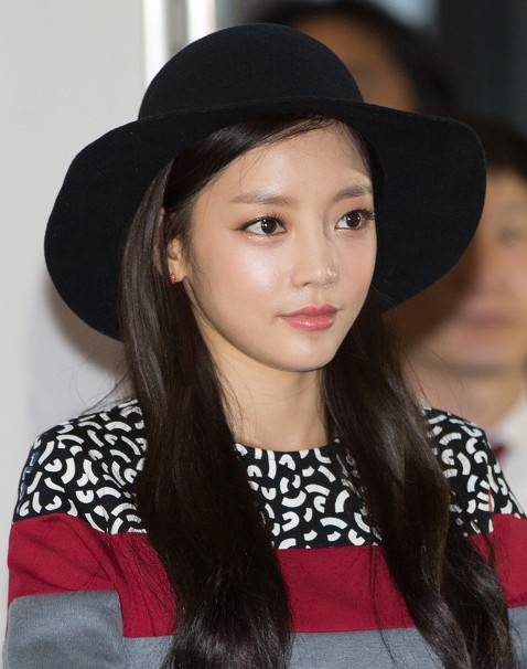 Goo Hara in August 2014